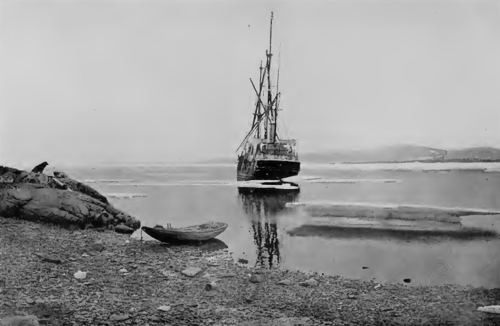 The Danmark in Danmark Harbour, Northeast Greenland, in August 1907.